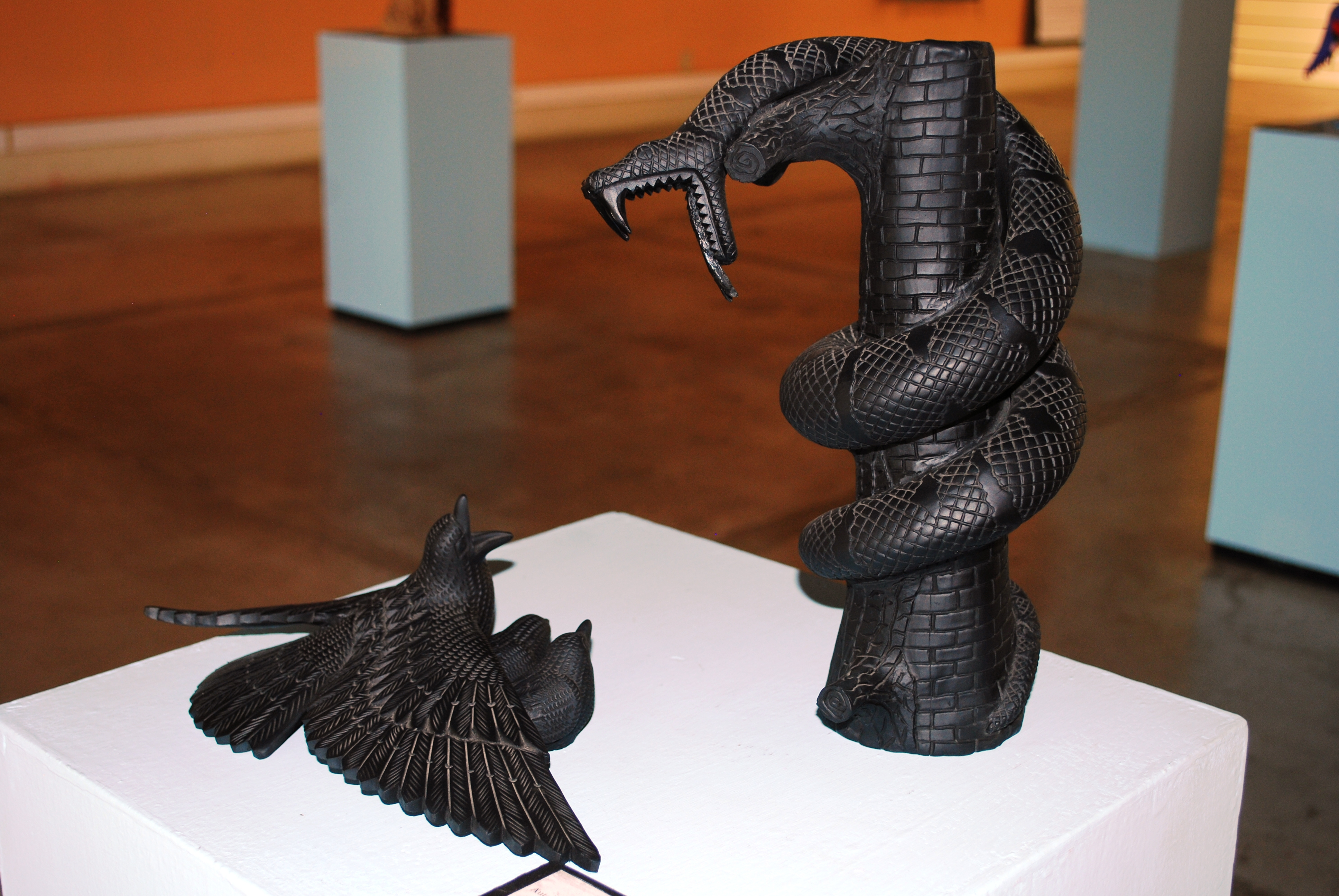 "Instinto Maternal" by Pedro Simón of San Bartolo Coyotepec of barro negro at Museo Estatal de Arte Popular de Oaxaca. See COM:CRT/Mexico#Freedom of panorama